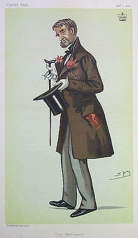 Caricature of Lord Crewe. Caption read "Lay Episcopacy".